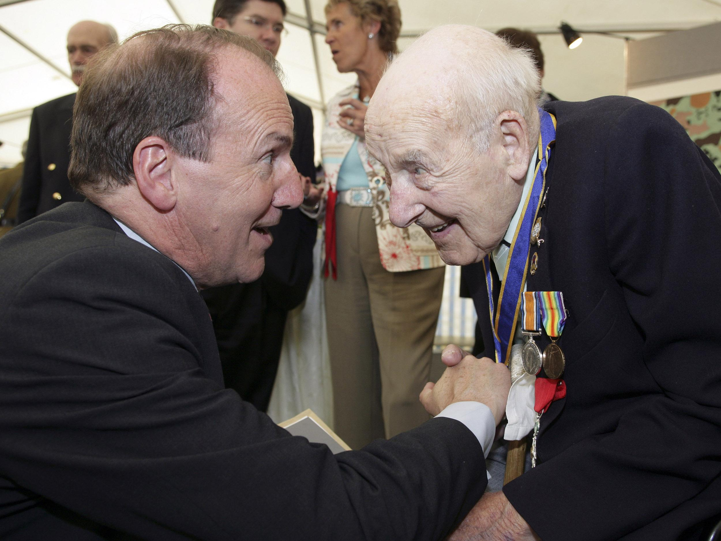 MP Simon Hughes meets WWI veteran and Europe's oldest man, Henry Allingham